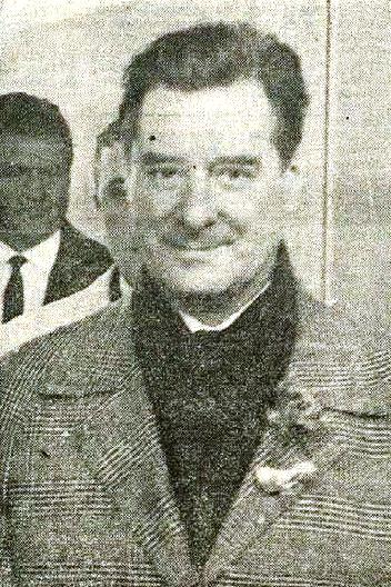 Dušan Kveder-Tomaž (1915 — 1966), Slovene partisan, general and diplomat